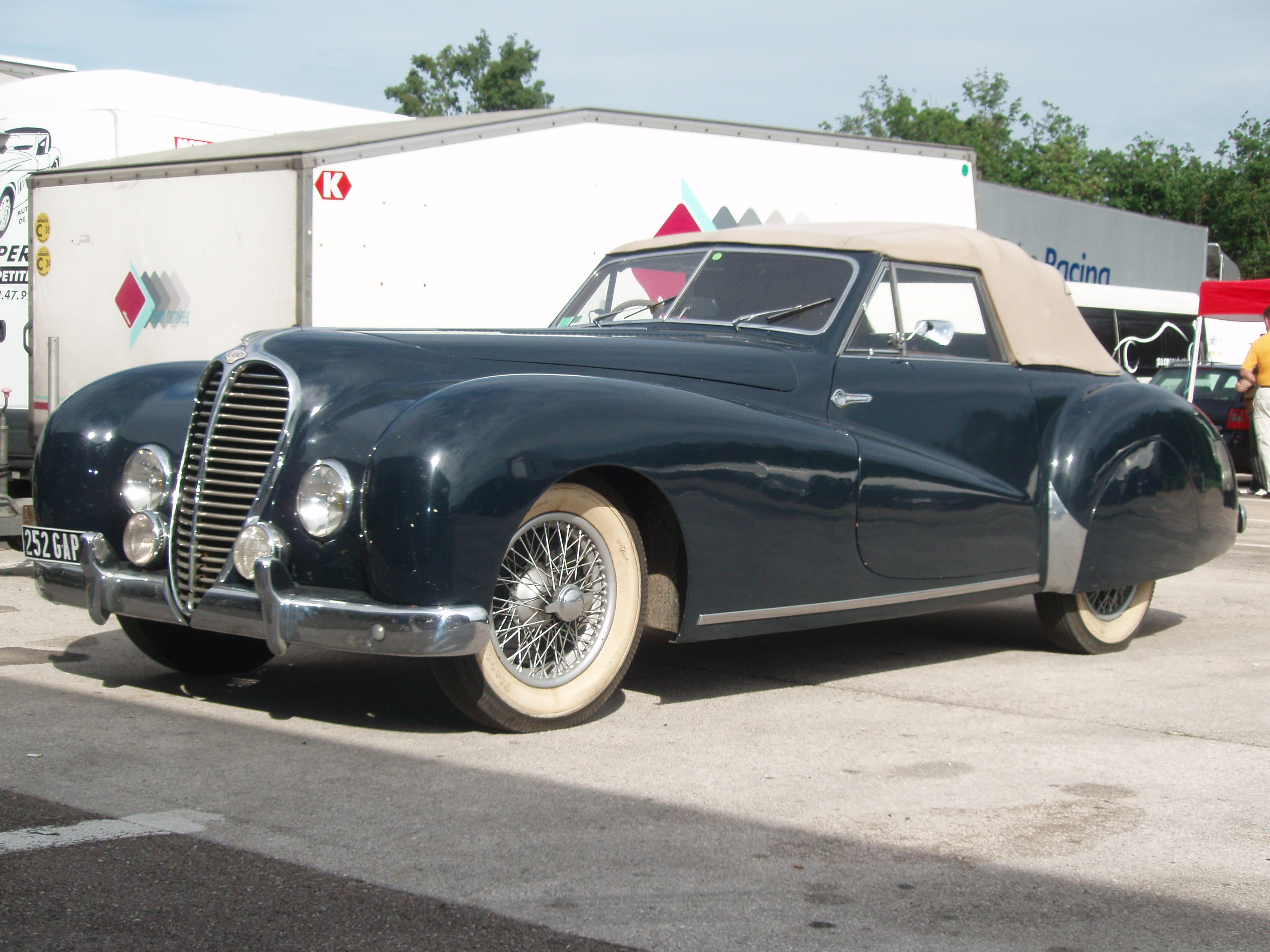 Delahaye convertiblePhoto shot at the 2007 "Grand Prix de l'Âge d'Or" in the pitlane of Dijon-Prenois.